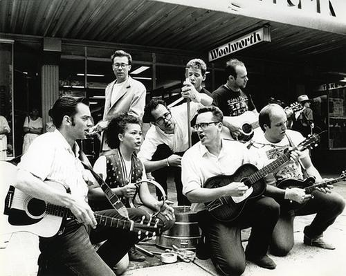 Band Photo